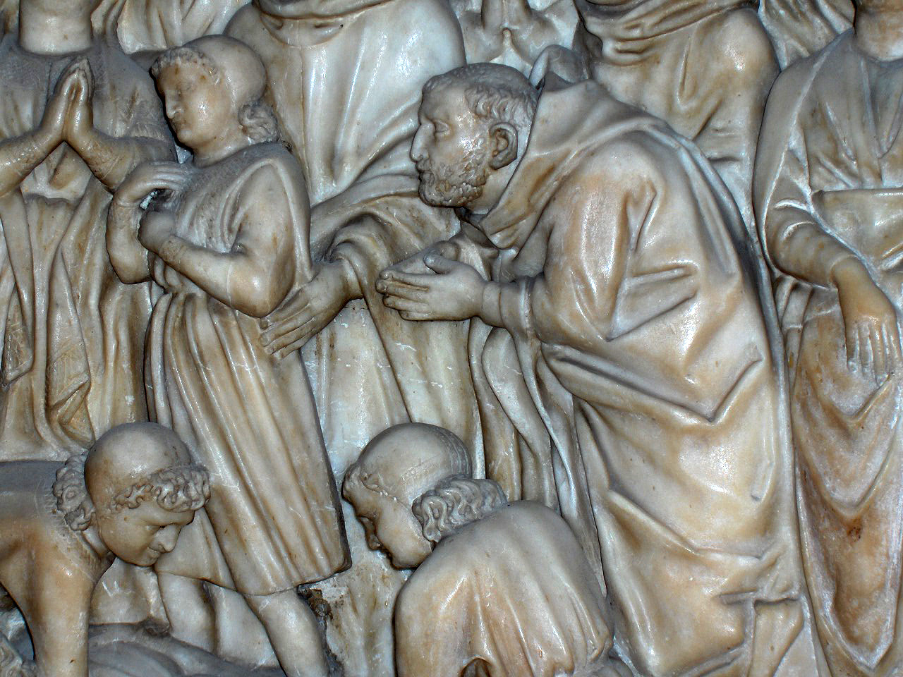 Saint Dominic (detail of previous photo);Ark of Saint Dominic, Basilica of Saint Dominic, BOlogna, Italy